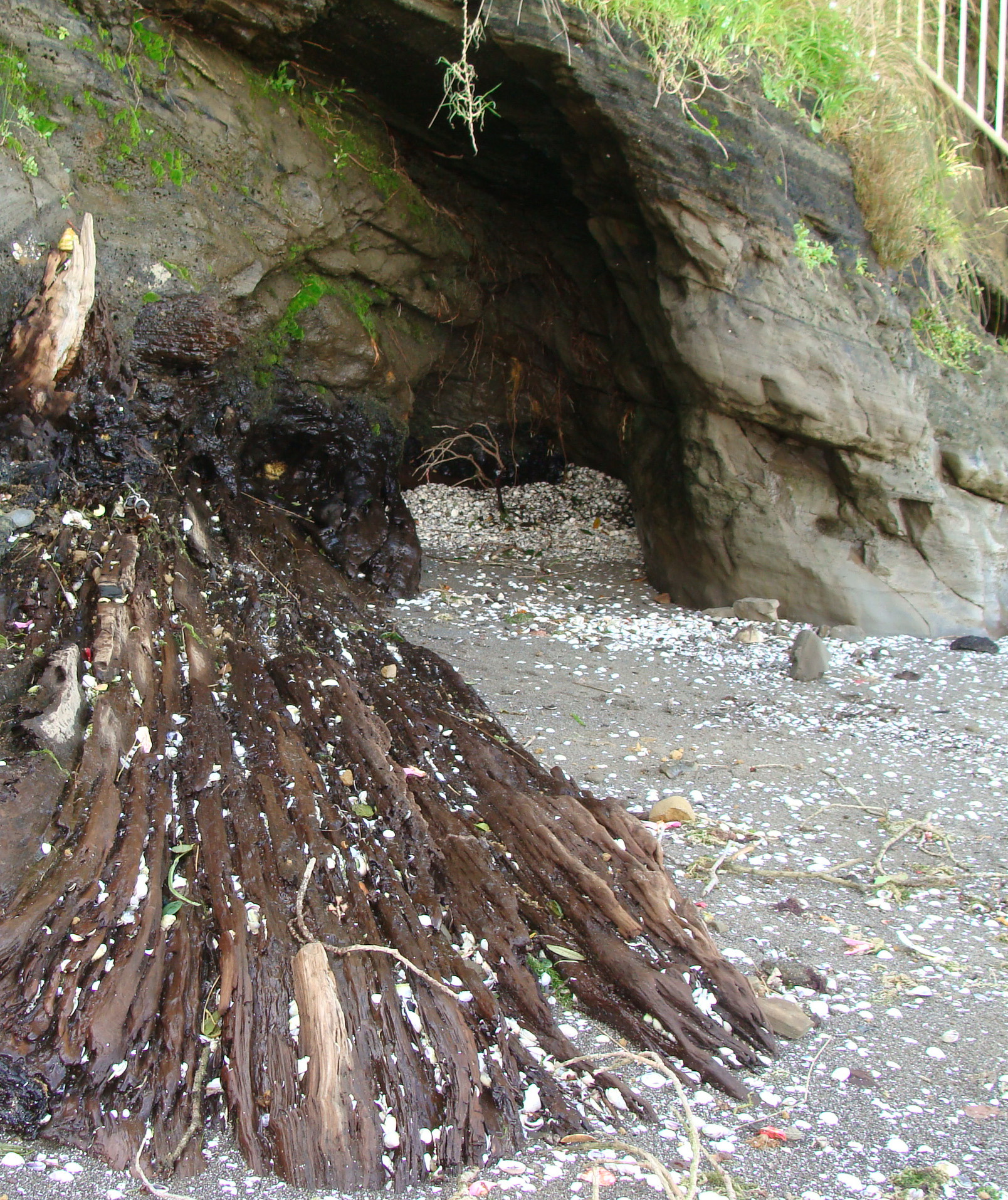 An ancient kauri log erodes from beneath layers of volcanic tuff at the Ihumatao fossil forest, Auckland, New Zealand.